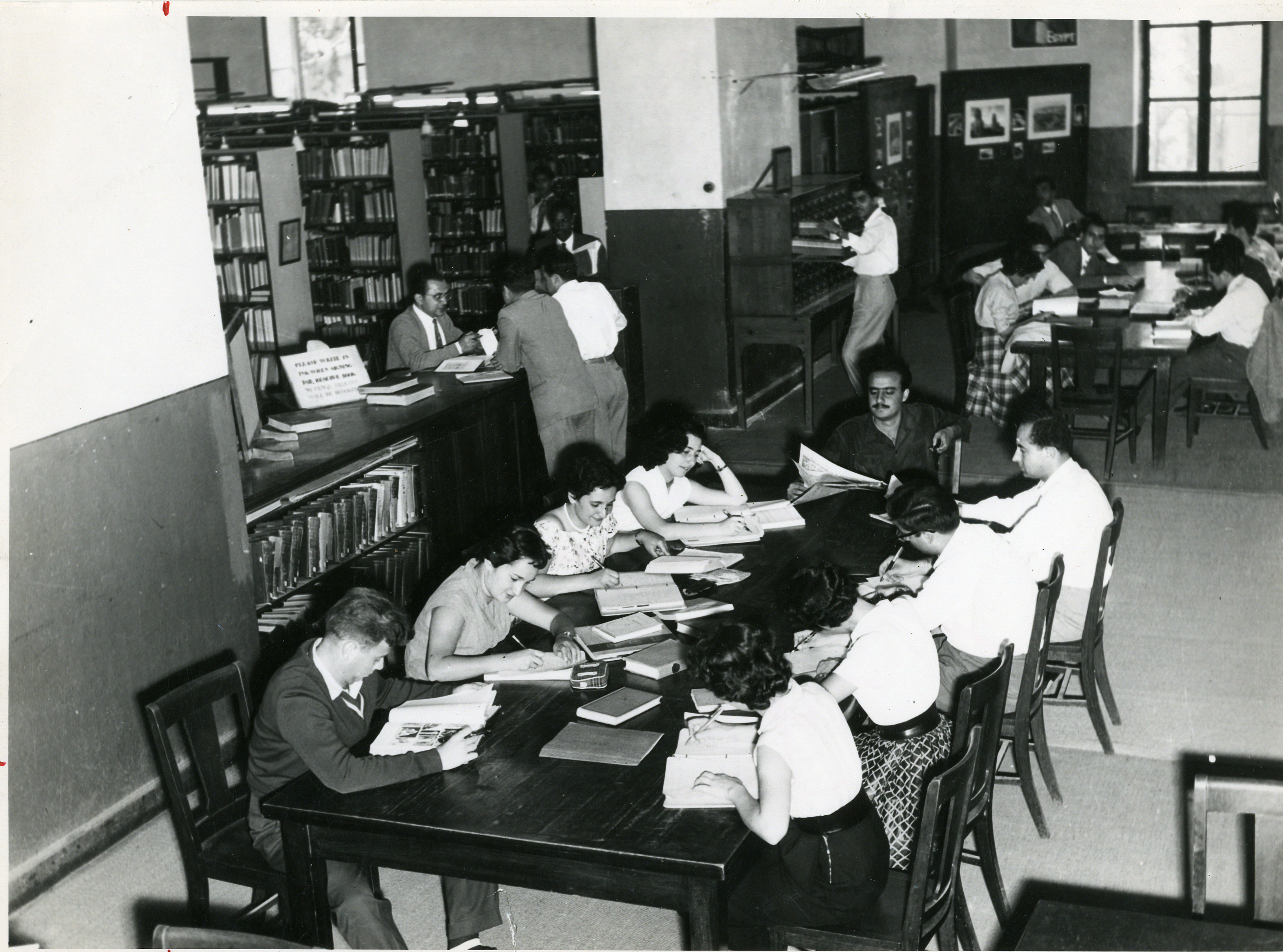 Interior view of the AUC Library in Hill House, Tahrir Campus, Cairo. Image dated ca. 1955.